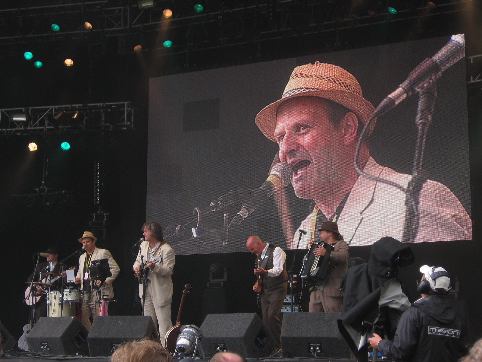 DJ Mahone (Mark Radcliffe) leading the Family Mahine charge through drinking song after drinking song. Ideal start to a day at the Cropredy Festival 2008